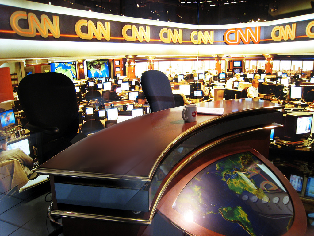 "No photography or video recording permitted in this area."